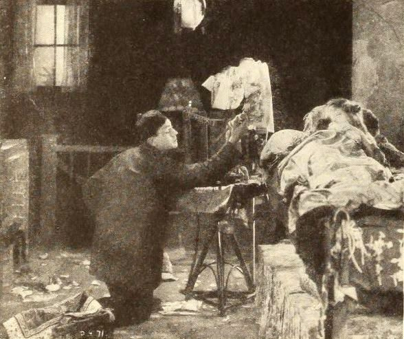 Still from the American film Broken Blossoms (1919) with Richard Barthelmess about to kill himself, on page 16 of the December 1921 Photoplay.